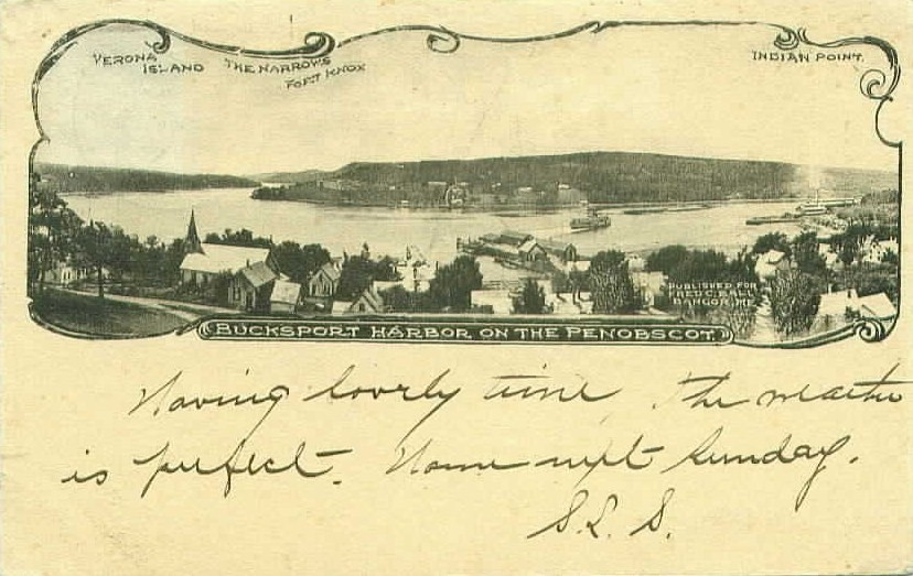 Postcard picture of Bucksport Harbor on the Penobscot River in Maine. Store Web page states: "Used undivided back, black and white post card, titled "BUCKSPORT HARBOR ON THE PENOBSCOT." [...] Card published for Fred C. Ball Bangor, Me. posted by BUCKSPORT, (ME) JUL 31, 1905 duplex hand cancel to Mrs. Gwin Clark, E. Boston, Mass.."